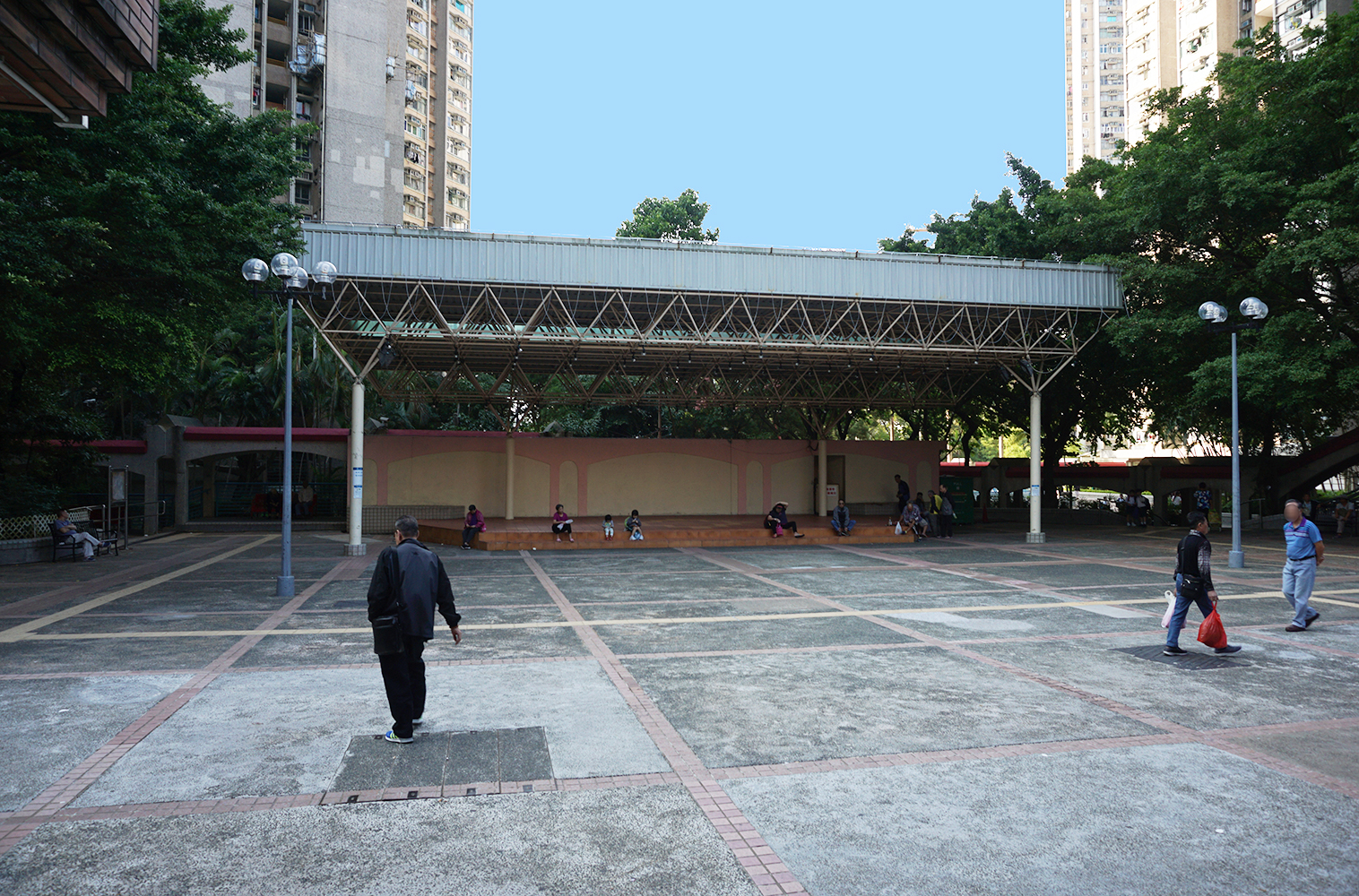 Kwong Yuen Estate in Siu Lek Yuen, Hong Kong.